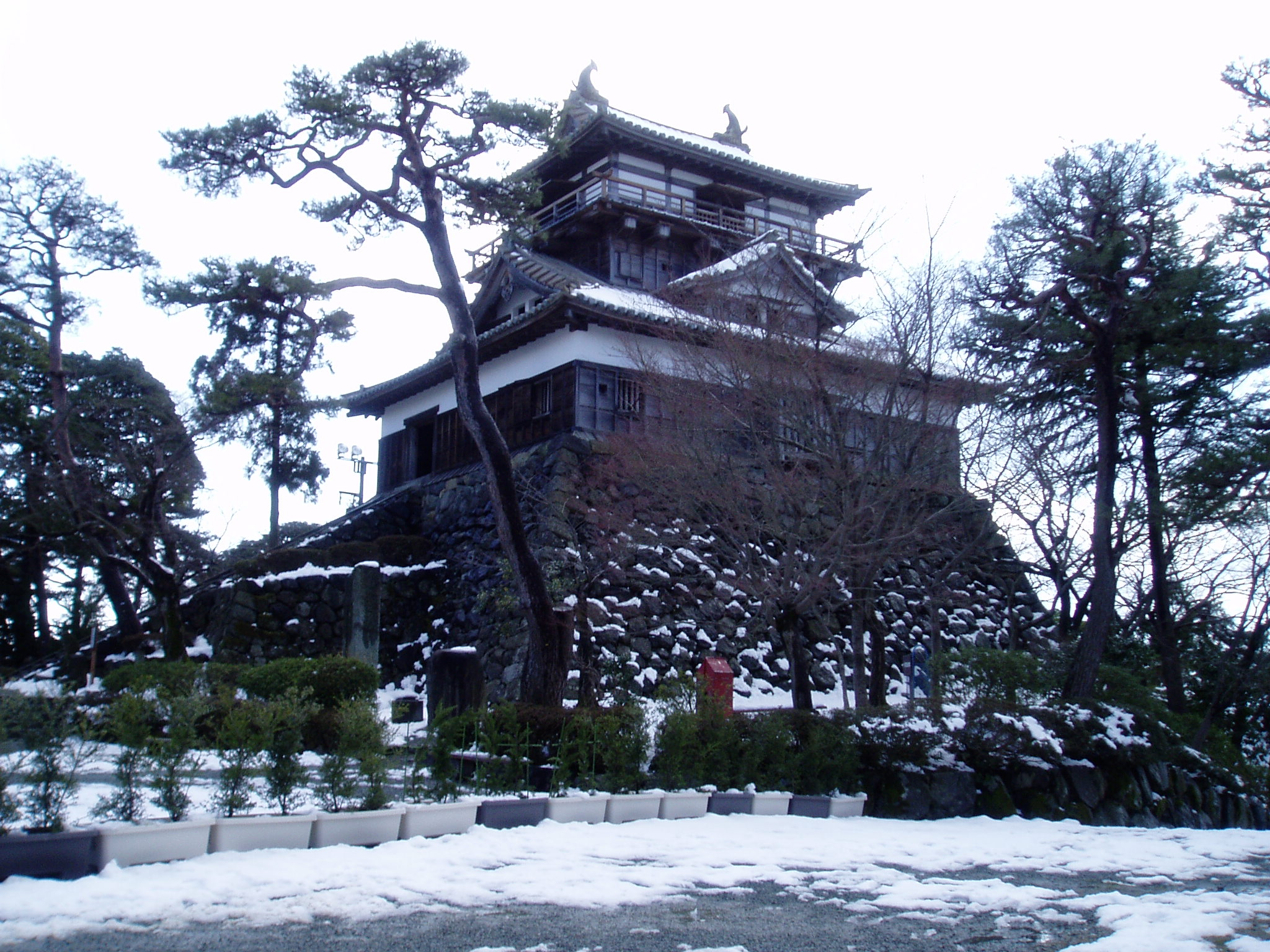 the Keep of Maruoka Castle (丸岡城)